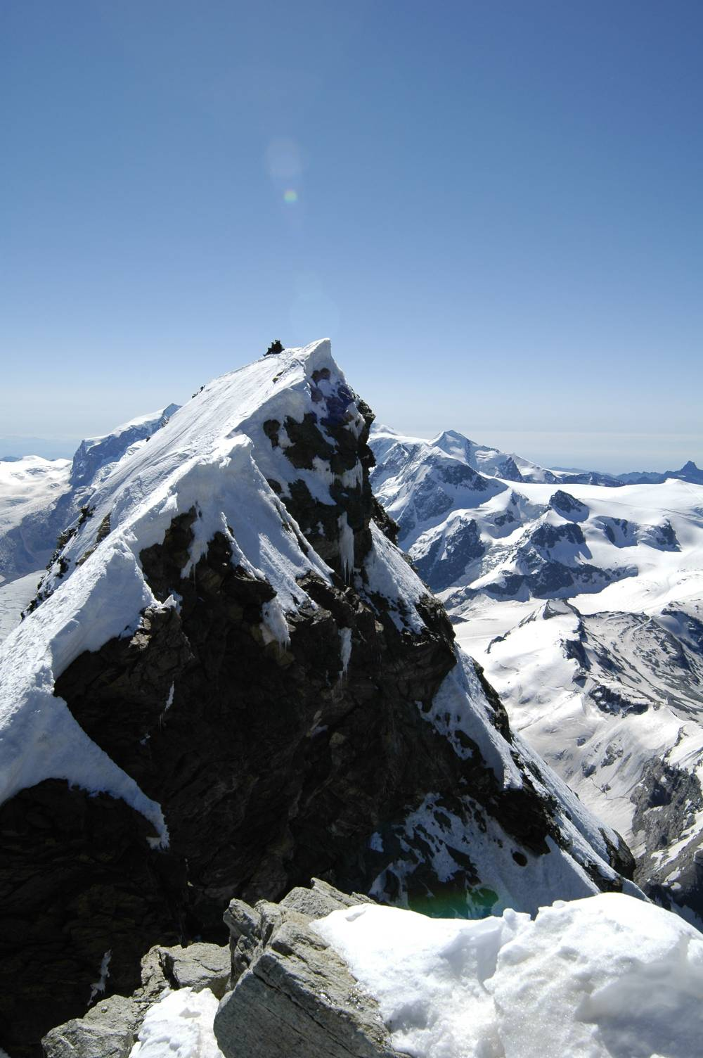 Swiss summit pictured from Italian summit